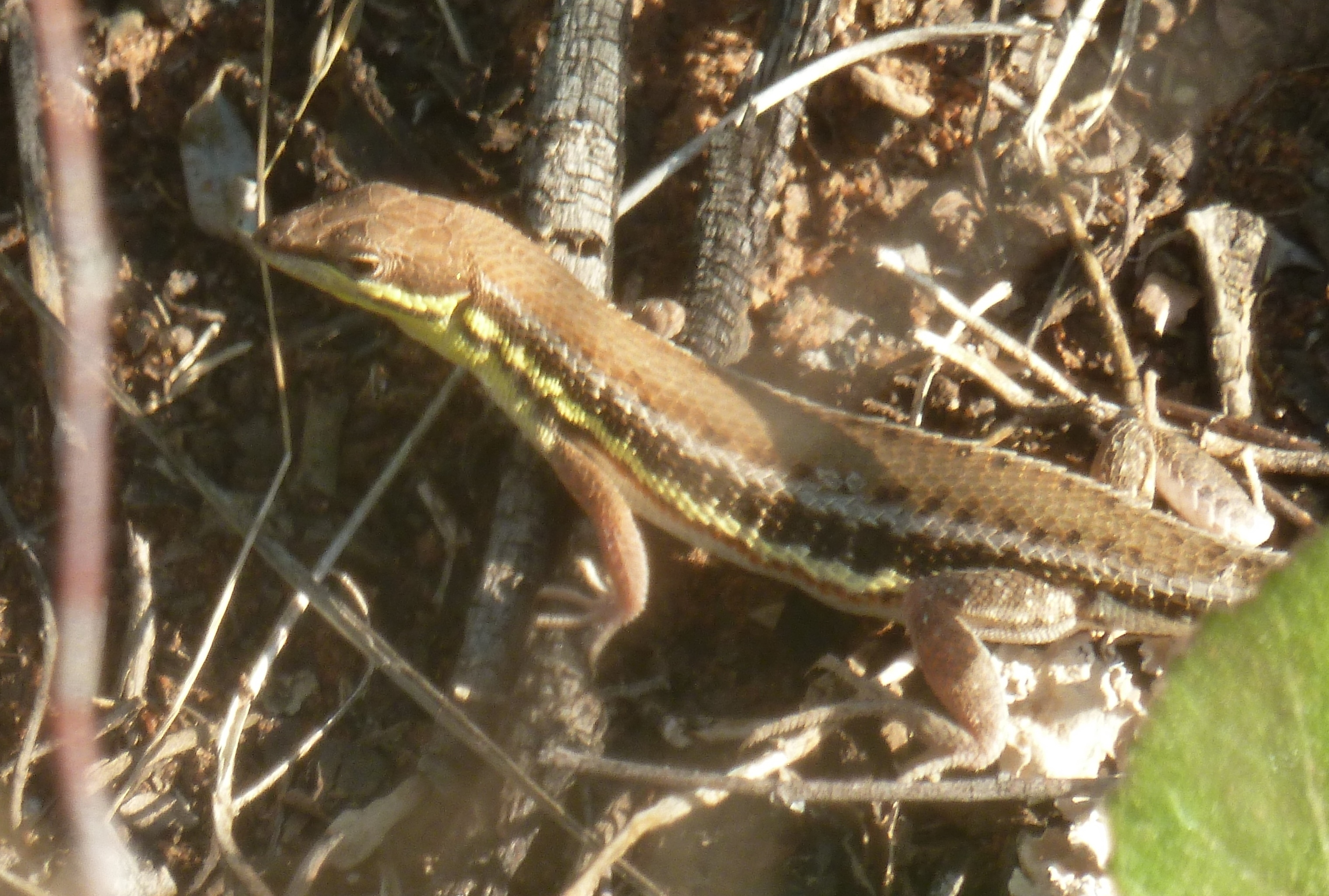 Cape rough-scaled lizard (Ichnotropis capensis) at Kililene game farm near Nylstroom, Limpopo, Republic of South Africa